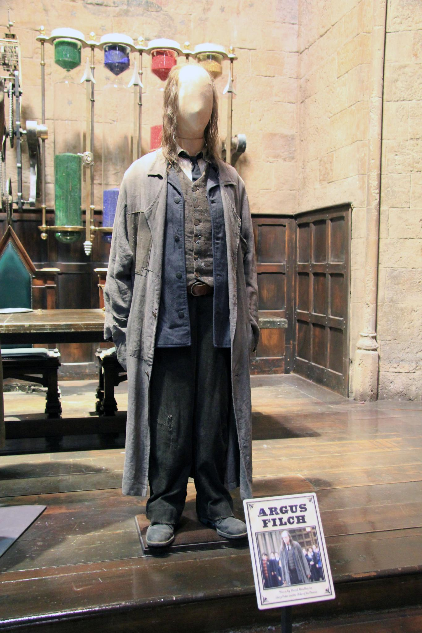 Warner Bros. Studio Tour London: The Making of Harry Potter.